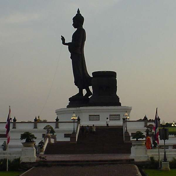 Buddha statue at Phuttamonthon, Thailand